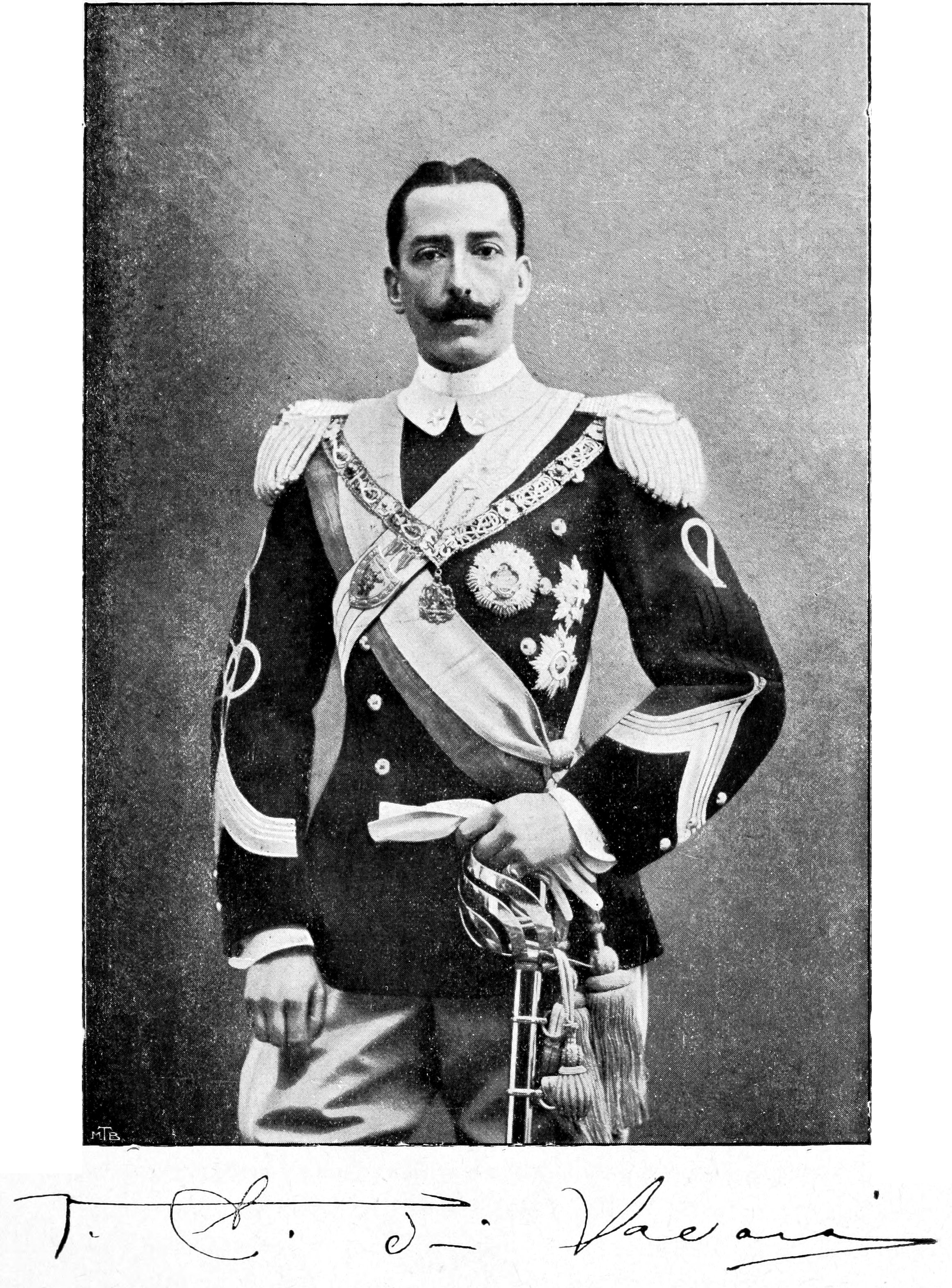 Image from book: Leopoldo Pullè, Patria Esercito Re, Ulrico Hoepli, Milan, 1908.